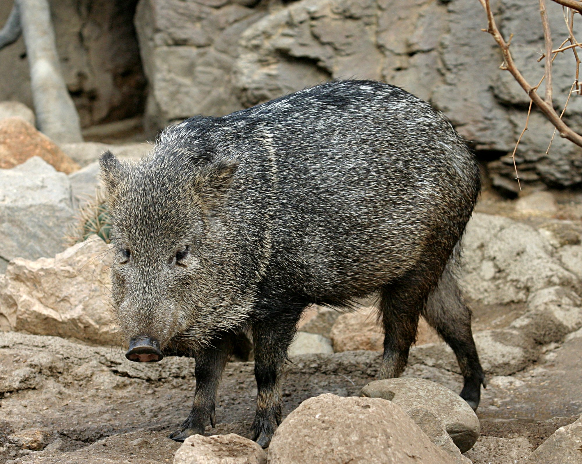 Collared Peccary at the Henry Doorly Zoo in Omaha, Nebraska